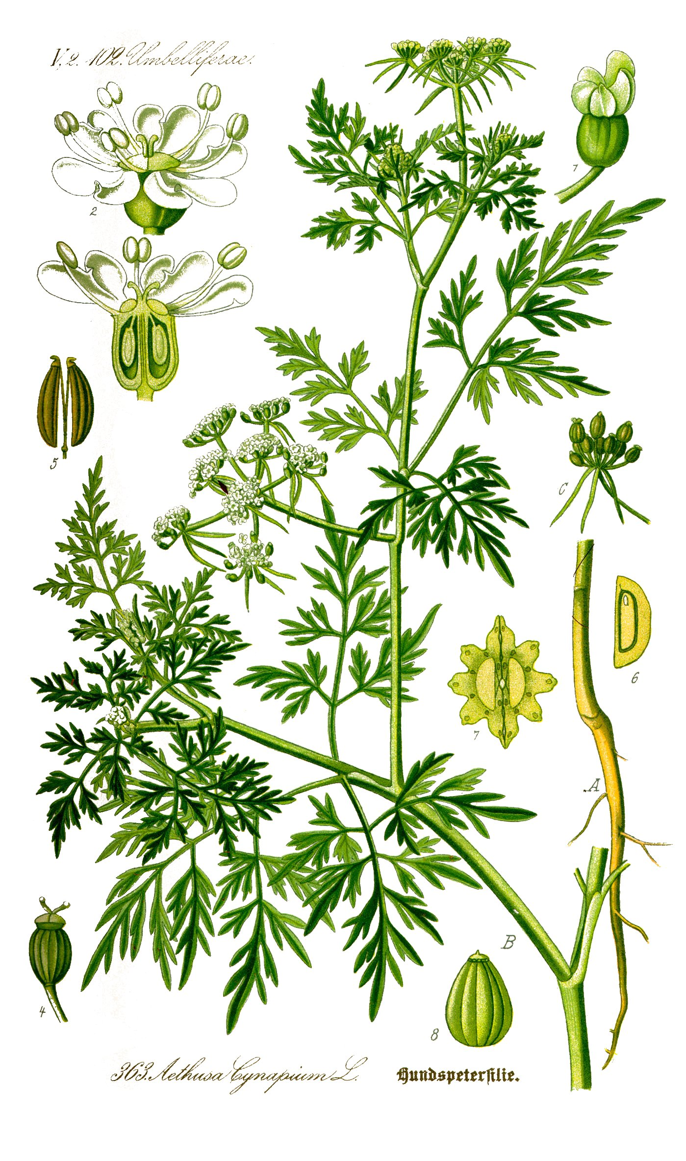 Clean version of Image:Illustration_Aethusa_cynapium0.jpg Name Aethusa cynapium Family Apiaceae